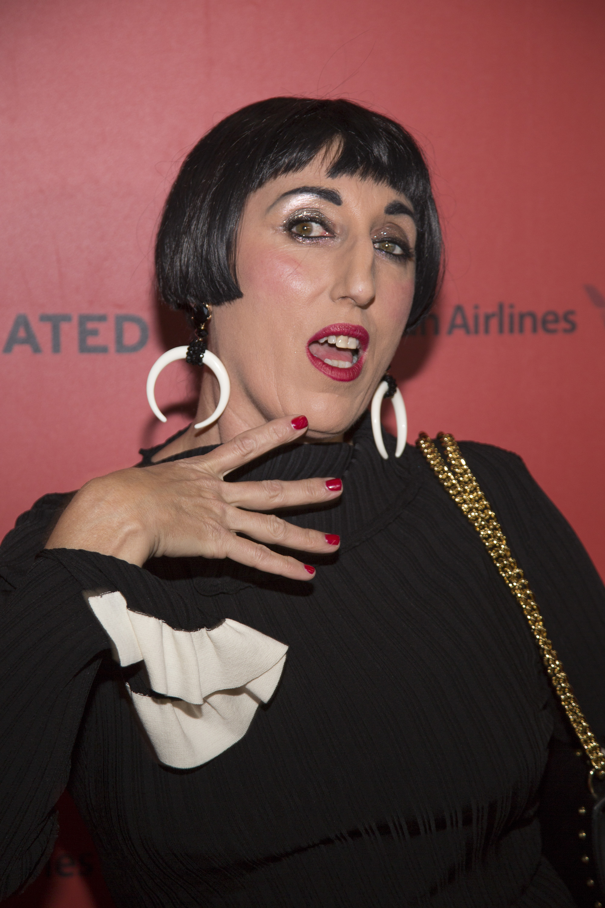 An Evening with the actress Rossy de Palma and Jessica Mitrani at Gusman Theater for Miami Film Festival on March 4, 2017